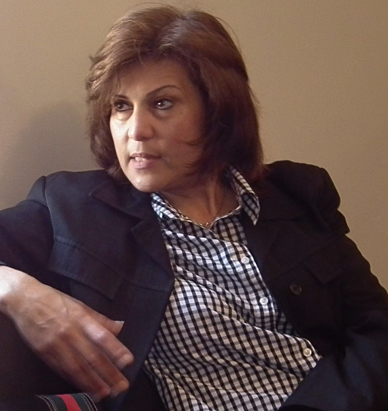 Salwa Bugaighis, libyan lawyer and activist of the February 17 uprise, two month later in 2011 in Benghazi.